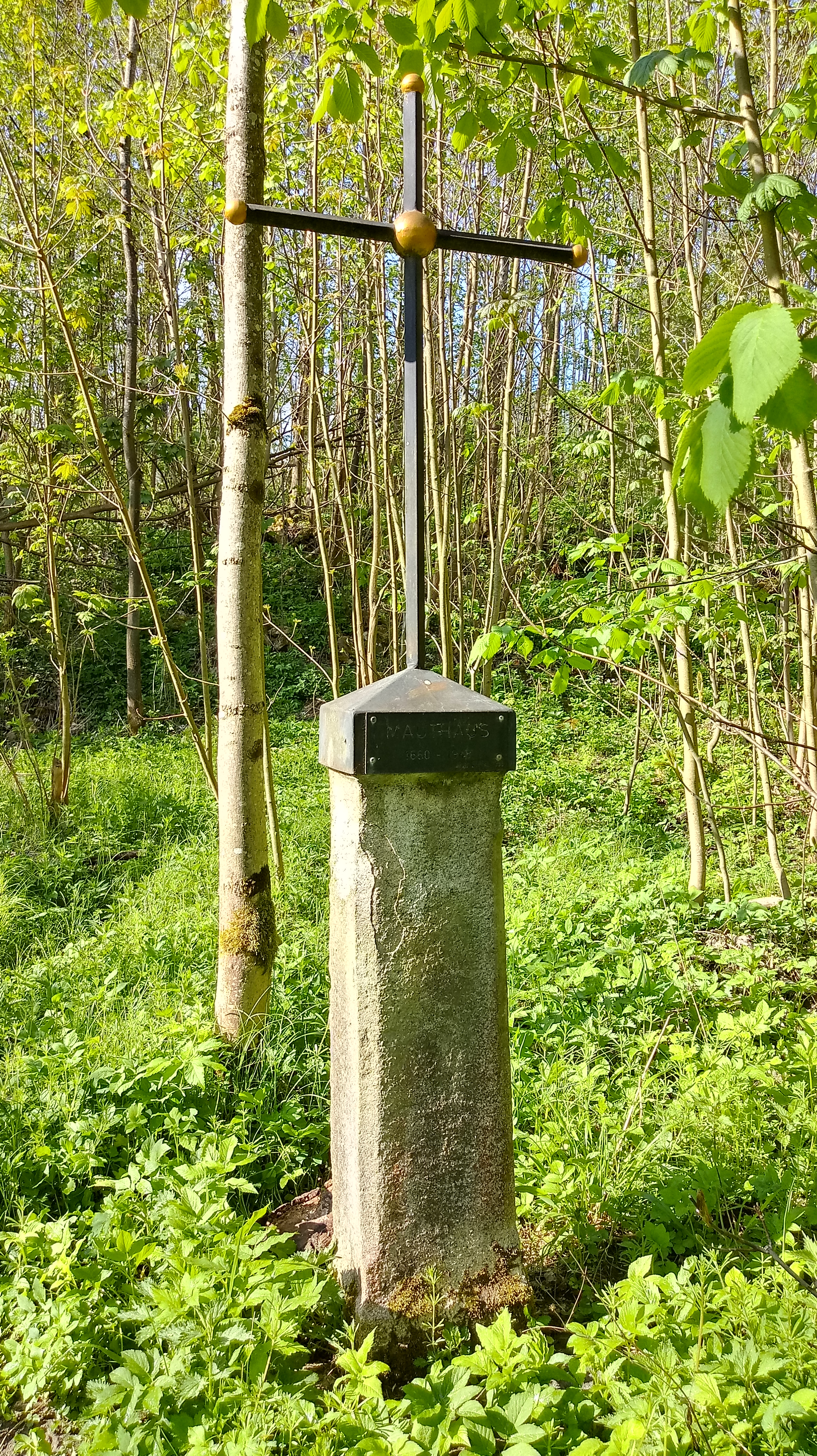 Memorial cross in Mýtnice abandoned village, Domažlice district, Czech Republic.